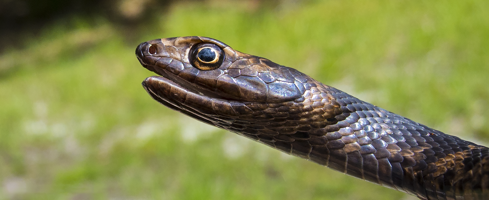 Ccoachwhip, Masticophis flagellum Florida 2